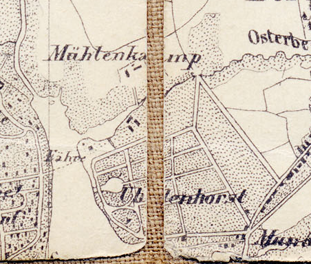 Hamburg (Winterhude), Germany: Excerpt of the 1867 city map of by F.H. Kurtze